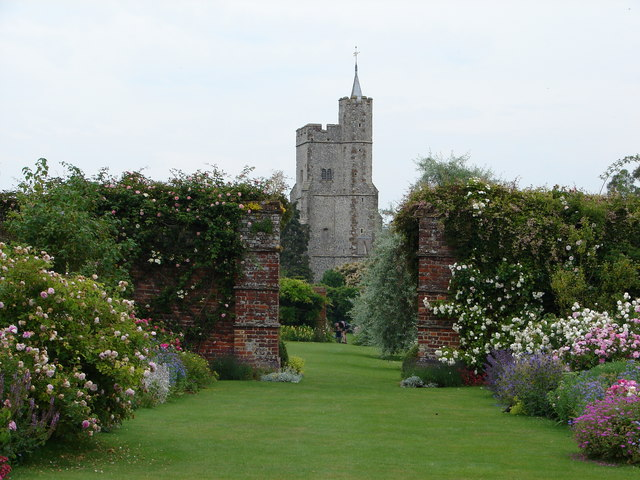 West tower of Holy Cross parish church, Goodnestone, Kent, seen from the south from the Rose Garden at Goodnestone